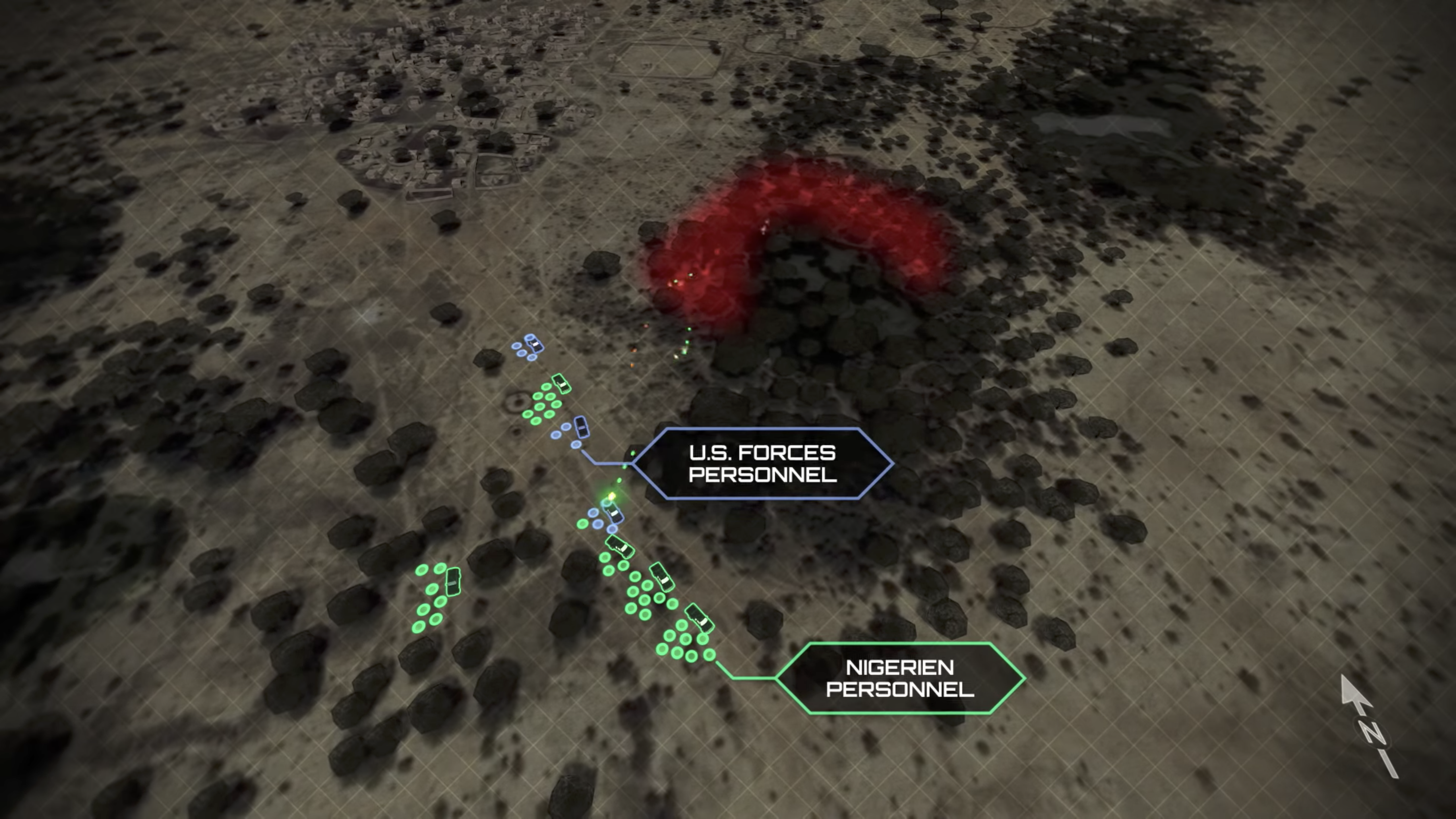 The beginning of the October 4 2017 ambush recreated in an official DoD video released to press